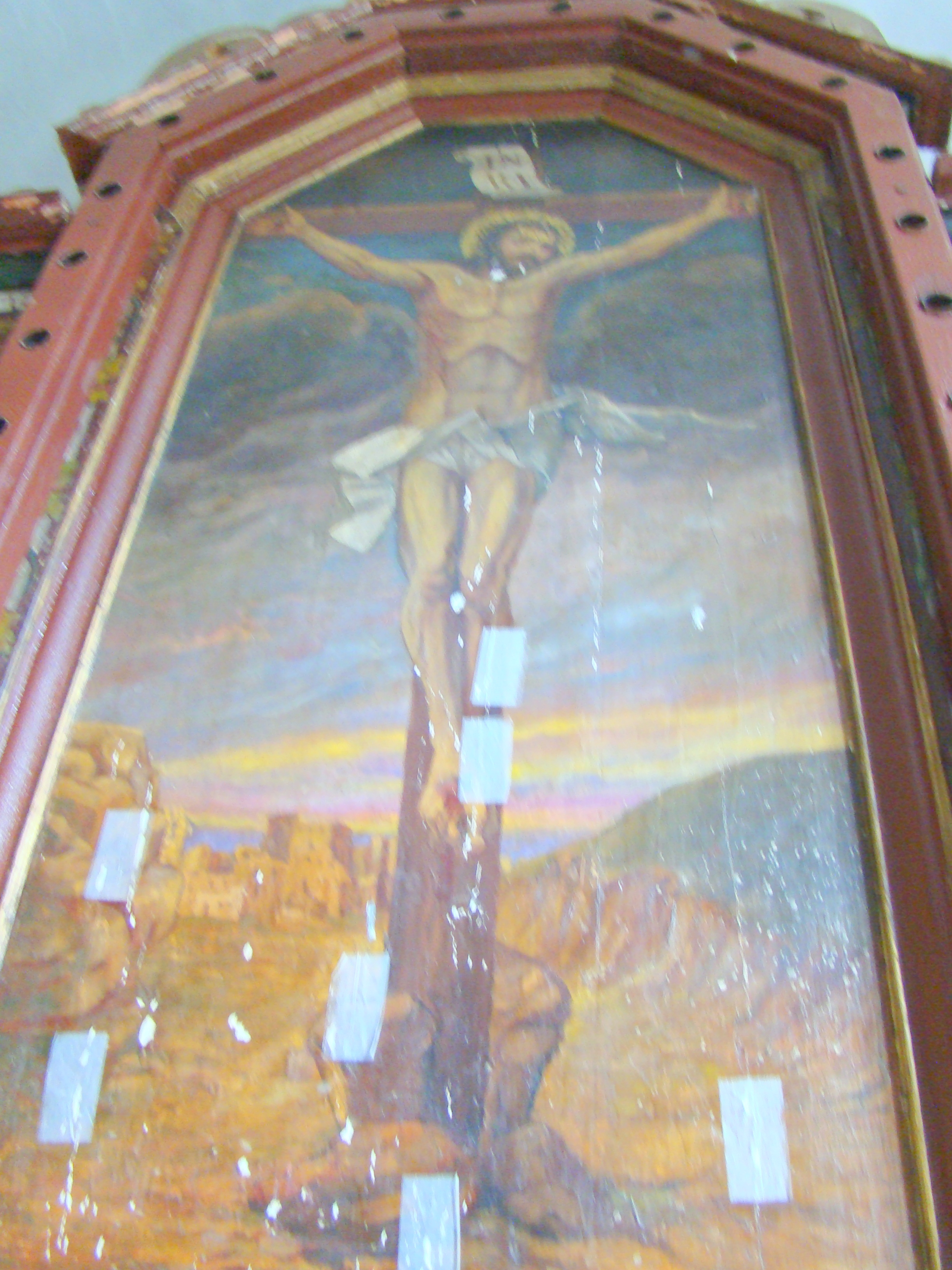 Lutheran church in Satu Nou, Brașov County, Romania